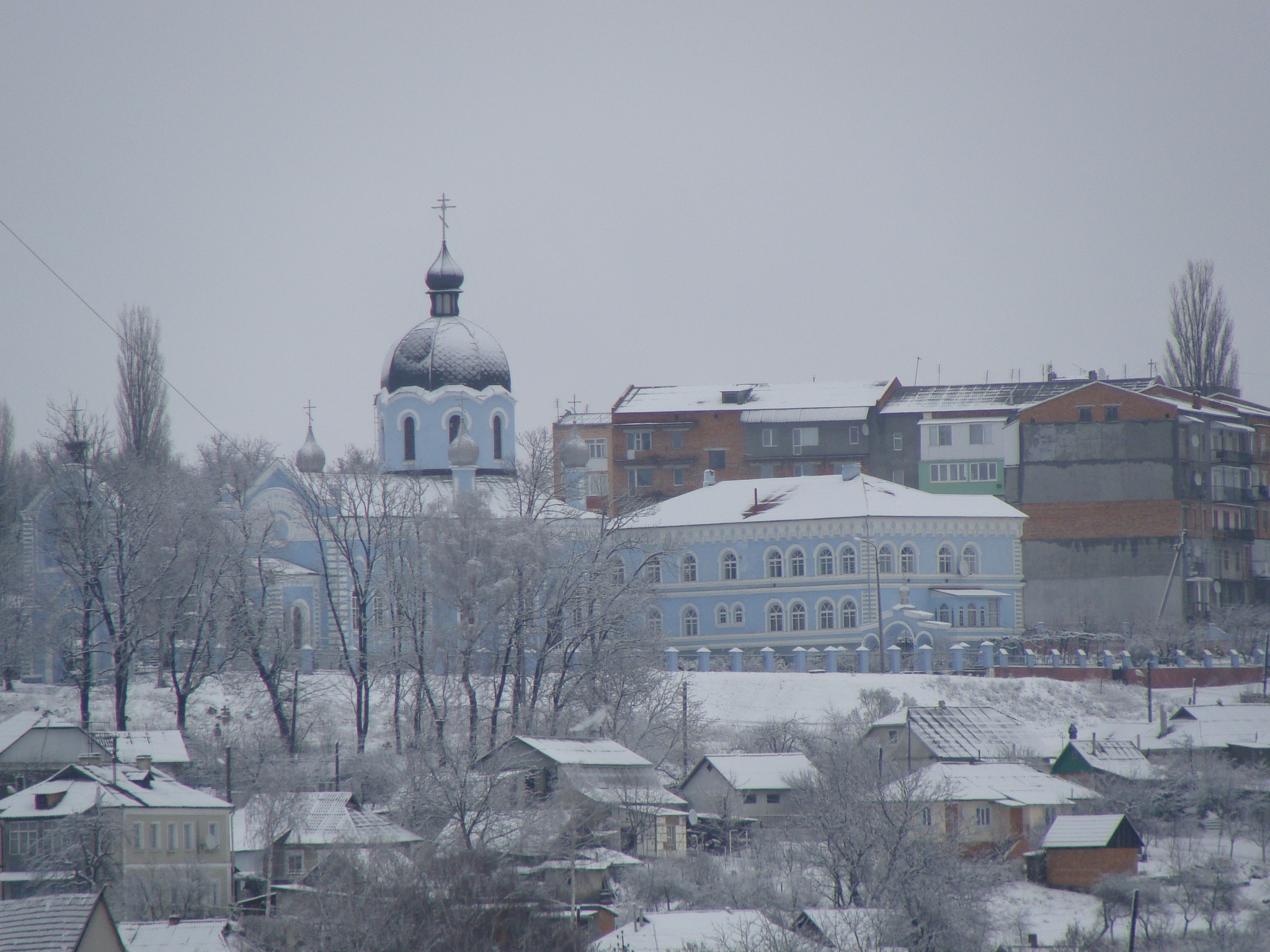 Church in Horodok, Khmelnytskyi Oblast in winter.